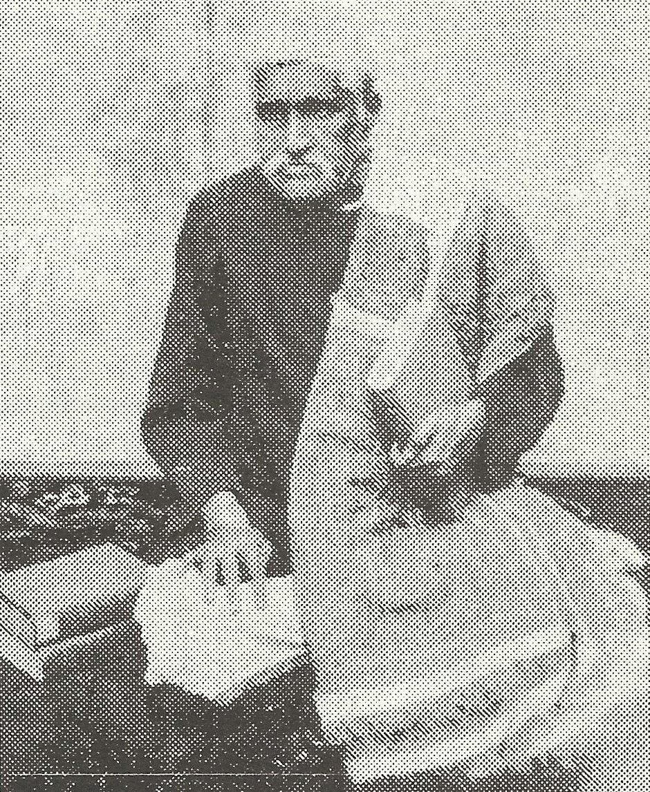 Image of Manomohan Bose (17 July 1831 - 4 February 1912), Indian journalist, poet and playwright and one of the organizers of Hindu Mela.